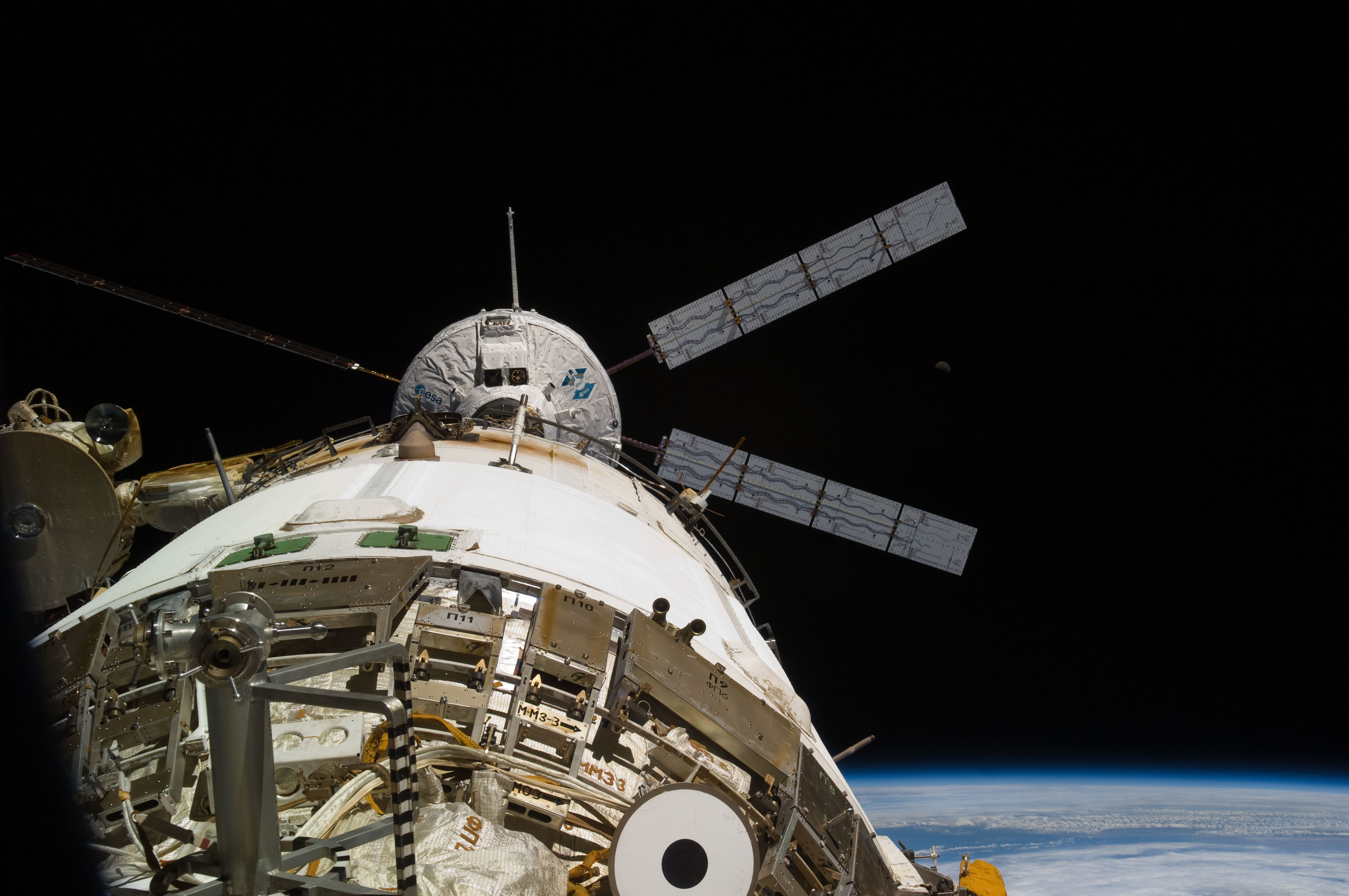 Backdropped by the blackness of space and Earth's horizon, the European Space Agency's "Johannes Kepler" Automated Transfer Vehicle-2 (ATV-2) docks to the aft end of the International Space Station's Zvezda Service Module. Docking of the two spacecraft occurred at 10:59 a.m. (EST) on Feb. 24, 2011. A crescent moon is visible at center right.